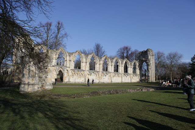 Remains of St Mary's Abbey, York For more details about the Abbey